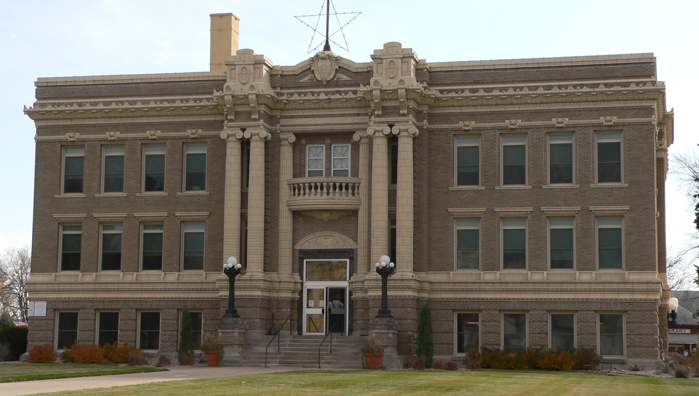 Clay County Courthouse in Clay Center, Nebraska, seen from the north. The building was designed in Beaux-Arts style by architect William F. Gernandt; the cornerstone was laid in 1918. The courthouse is listed in the National Register of Historic Places.